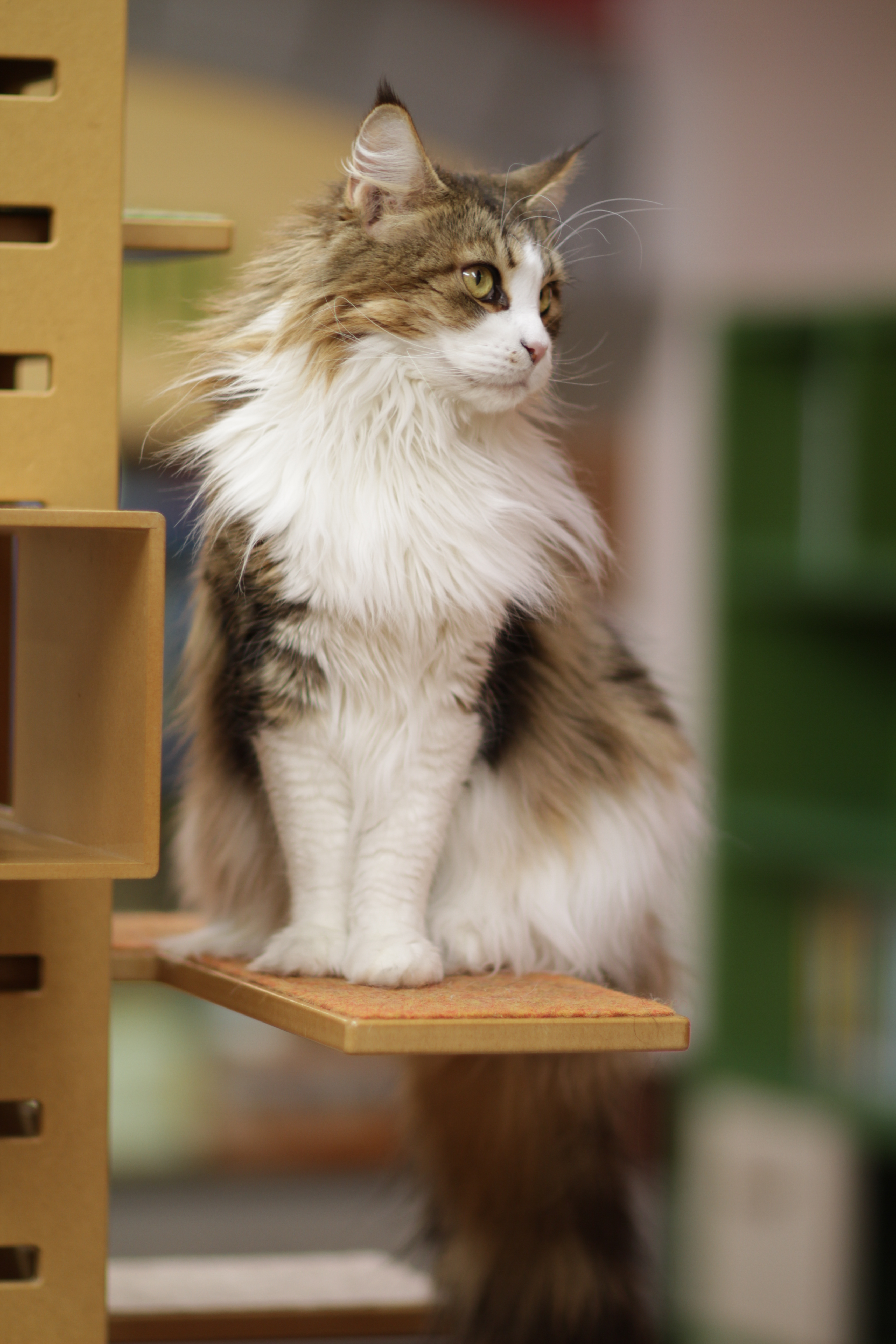 Info of the cat: Name: Karin Type: Maine Coon Gender: Female Taken at cat cafe "Nekobukuro" Canon EOS 7D + Canon EF 85mm F1.2L II USM